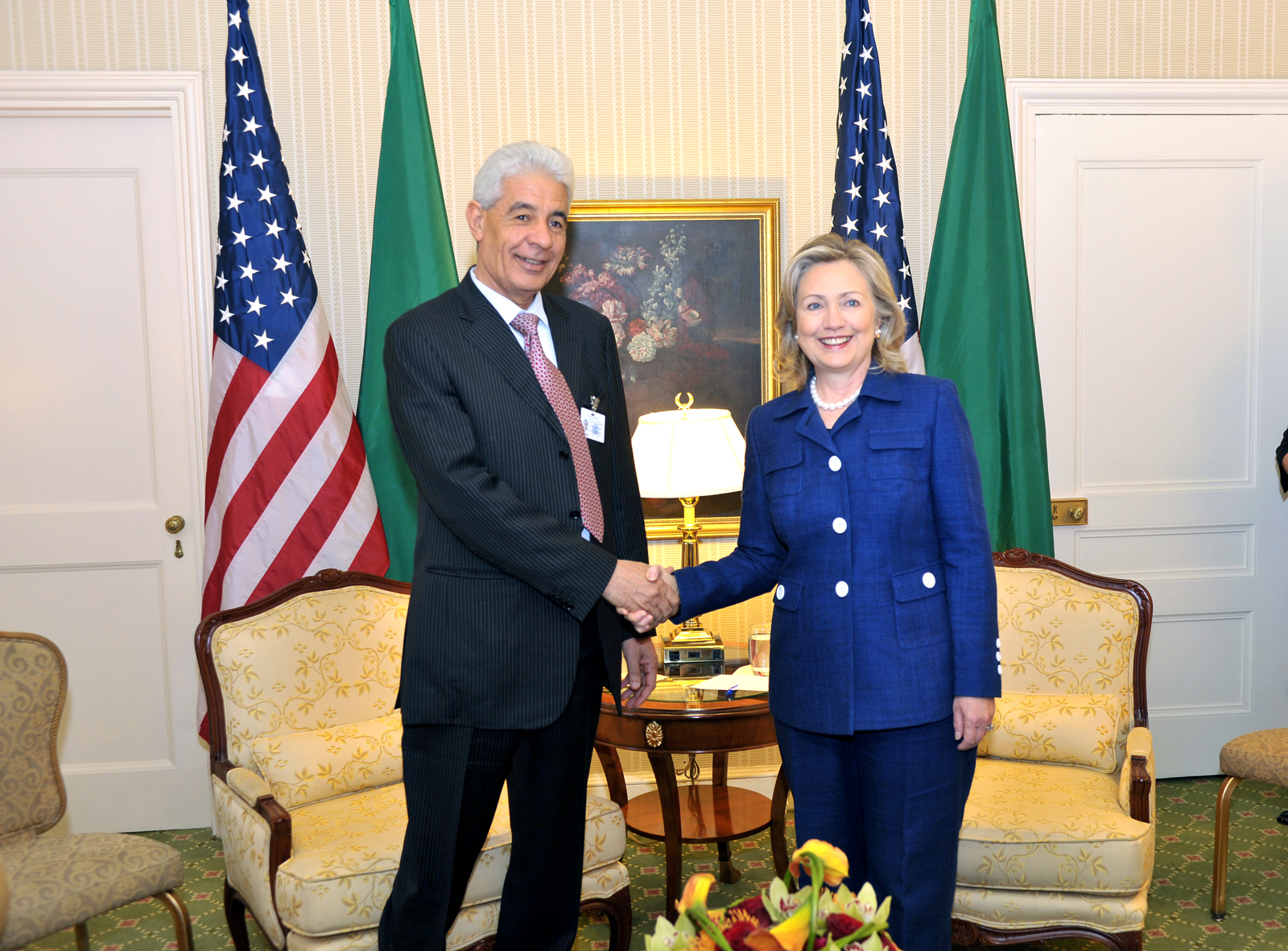 U.S. Secretary of State Hillary Rodham Clinton shakes hands with Libyan Foreign Minister Musa Kousa after their bilateral meeting at the Waldorf-Astoria in New York, New York, on September 21, 2010.